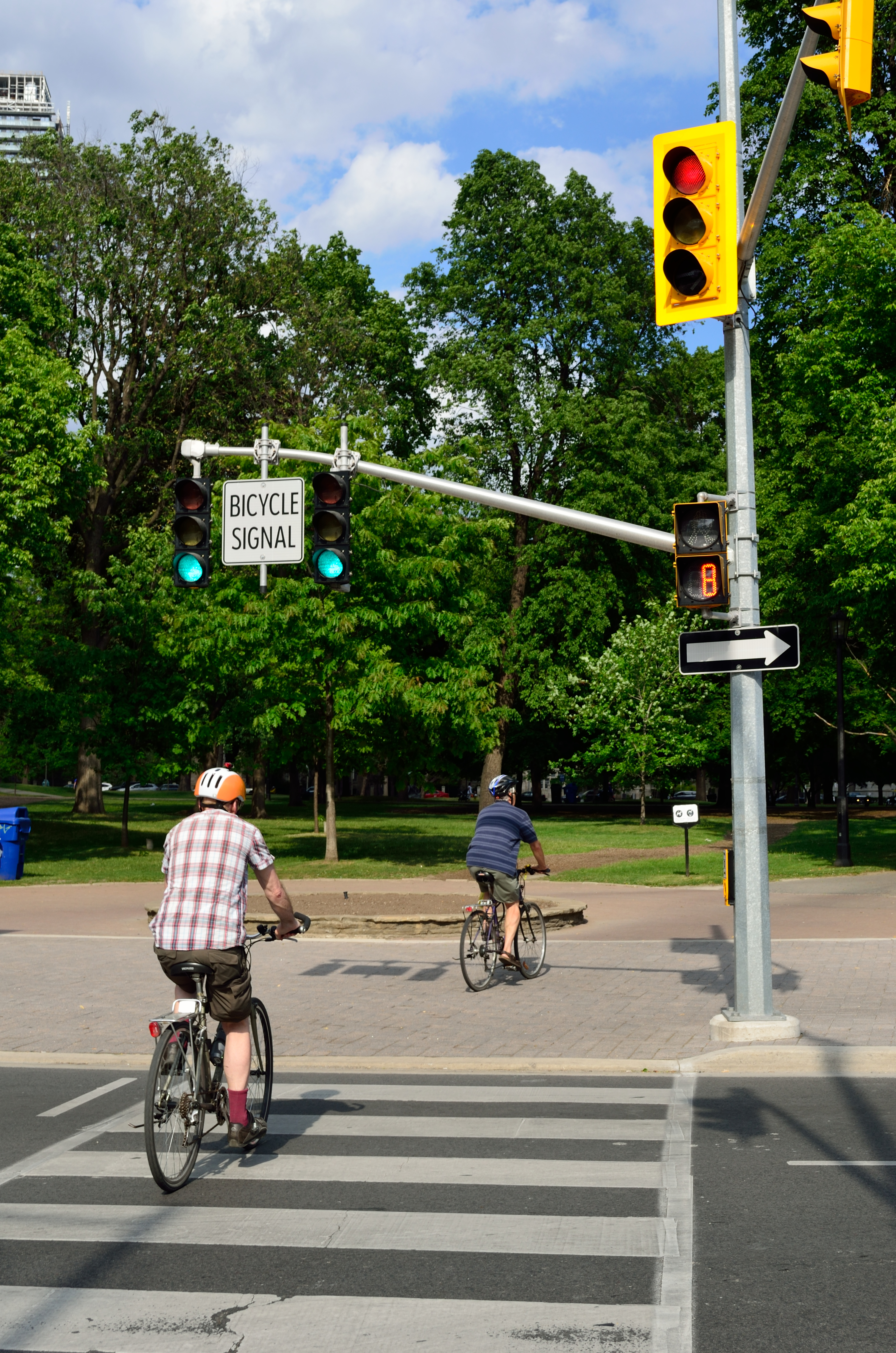 Bicycle signal at Toronto Queen's Park.